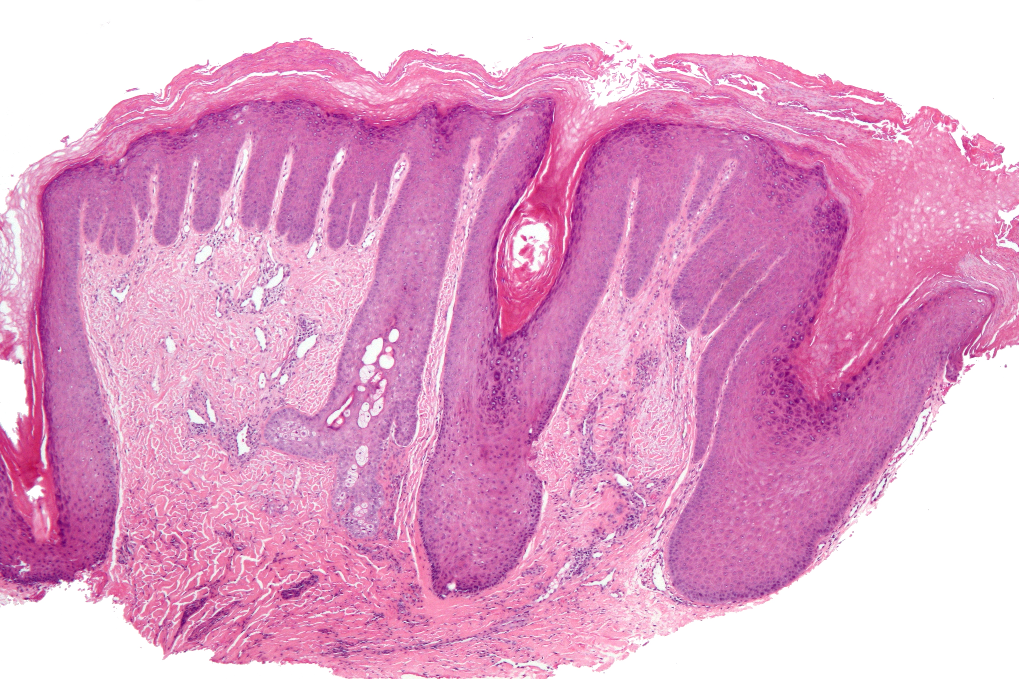 Low magnification micrograph of lichen simplex chronicus, abbreviated LSC. H&E stain. Skin biopsy. Features: Acanthosis (epidermal thickening). Hyperkeratosis (thickened stratum corneum). Parakeratosis = retention of nuclei in the stratum corneum. +/- Spongiosis (epidermal intercellular edema -- cells appear to have a clear halo around 'em). Related images Very low mag. Intermed. mag. High mag. Very high mag.